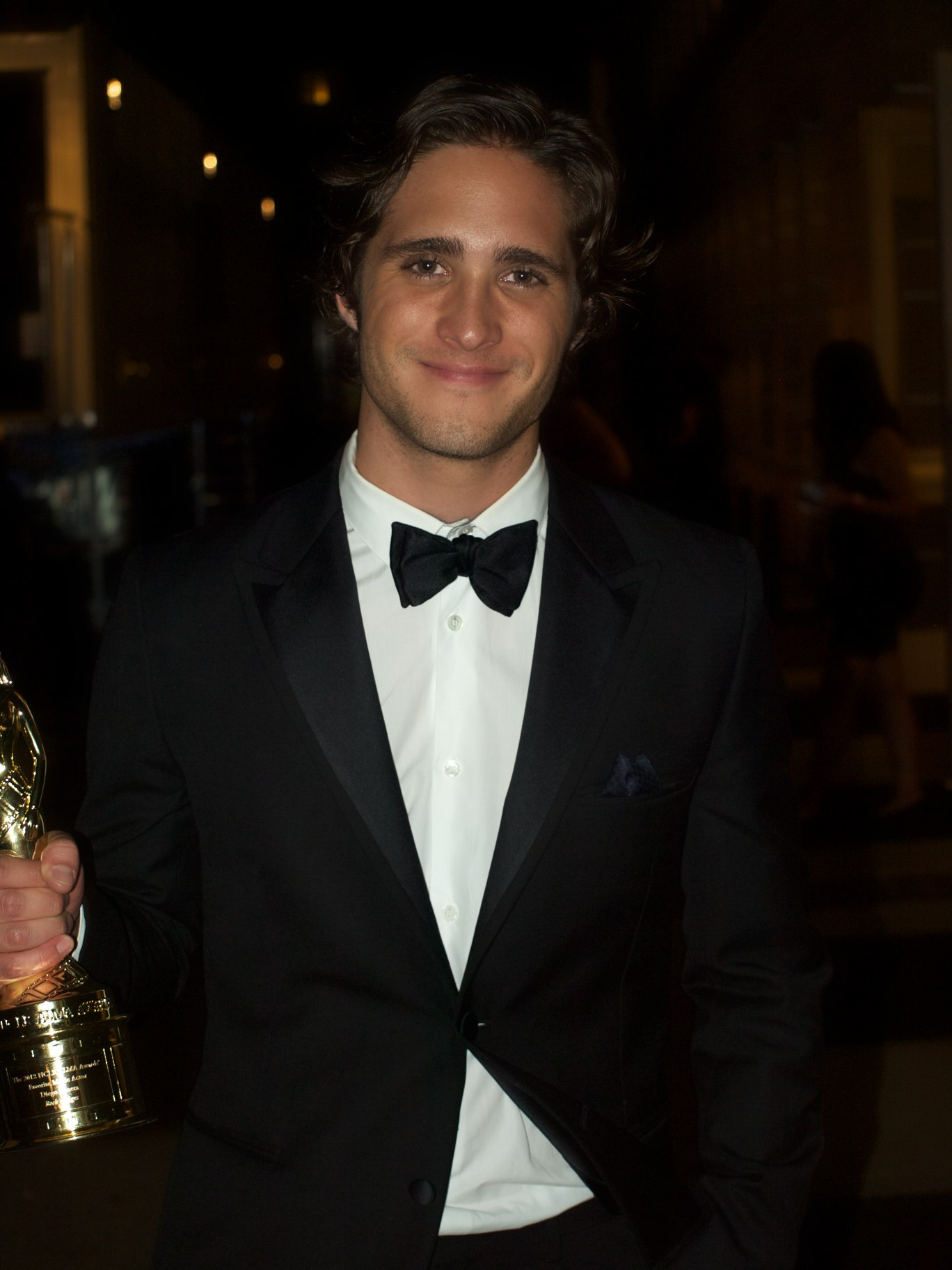 Diego Boneta, Alma Awards 2012